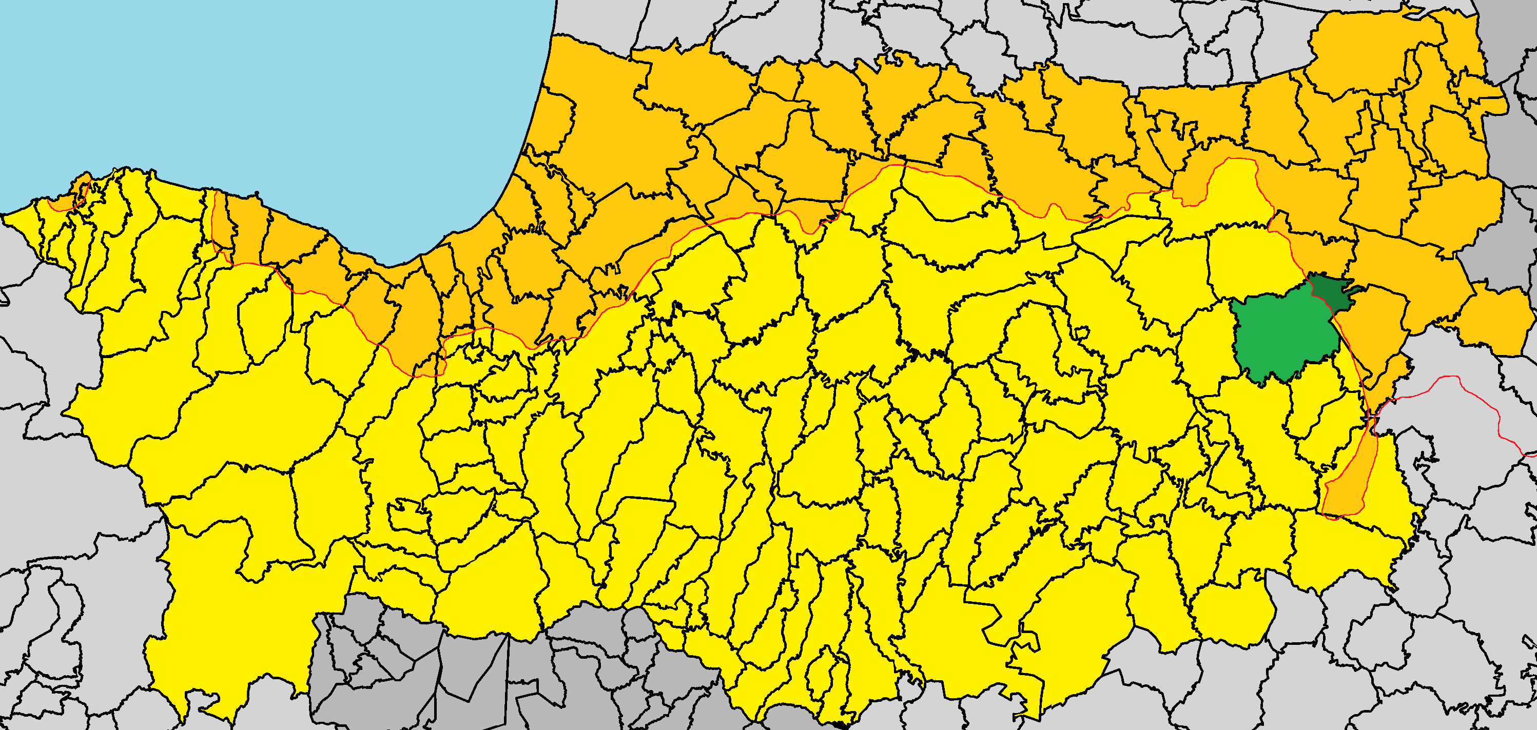 Geri, Cyprus in Nicosia District (de jure).